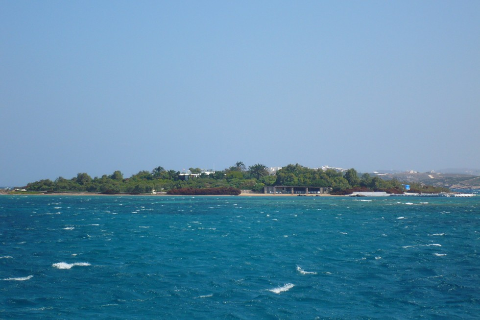 A private island next to Antiparos in Greece.